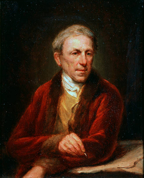 'Self-portrait', 1840. Kühnel, Friedrich (1766-1841). Found in the collection of the State V. Tropinin-Museum, Moscow. (Photo by Fine Art Images/Heritage Images/Getty Images)